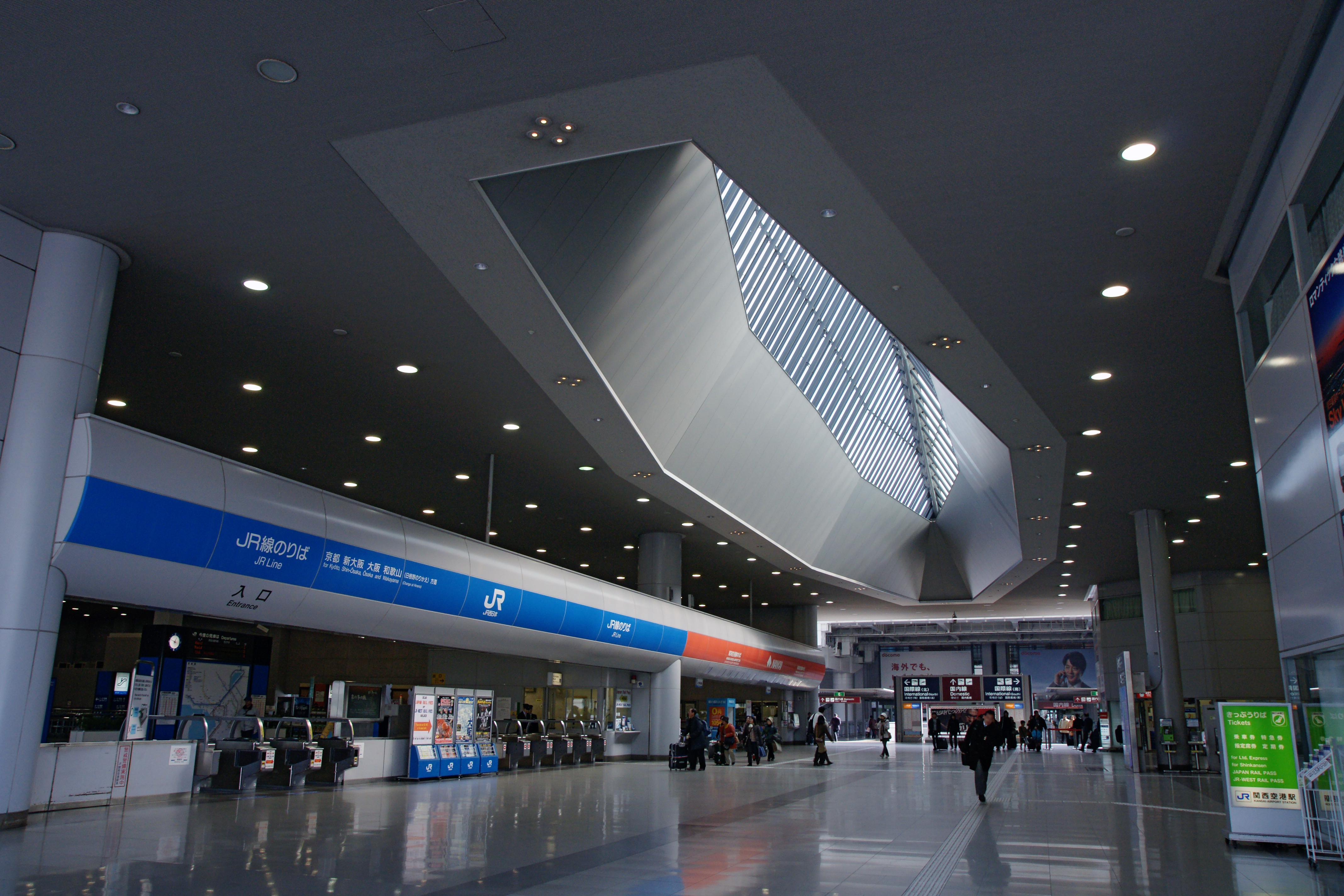 Kansai Airport Station, Tajiri, Osaka prefecture, Japan